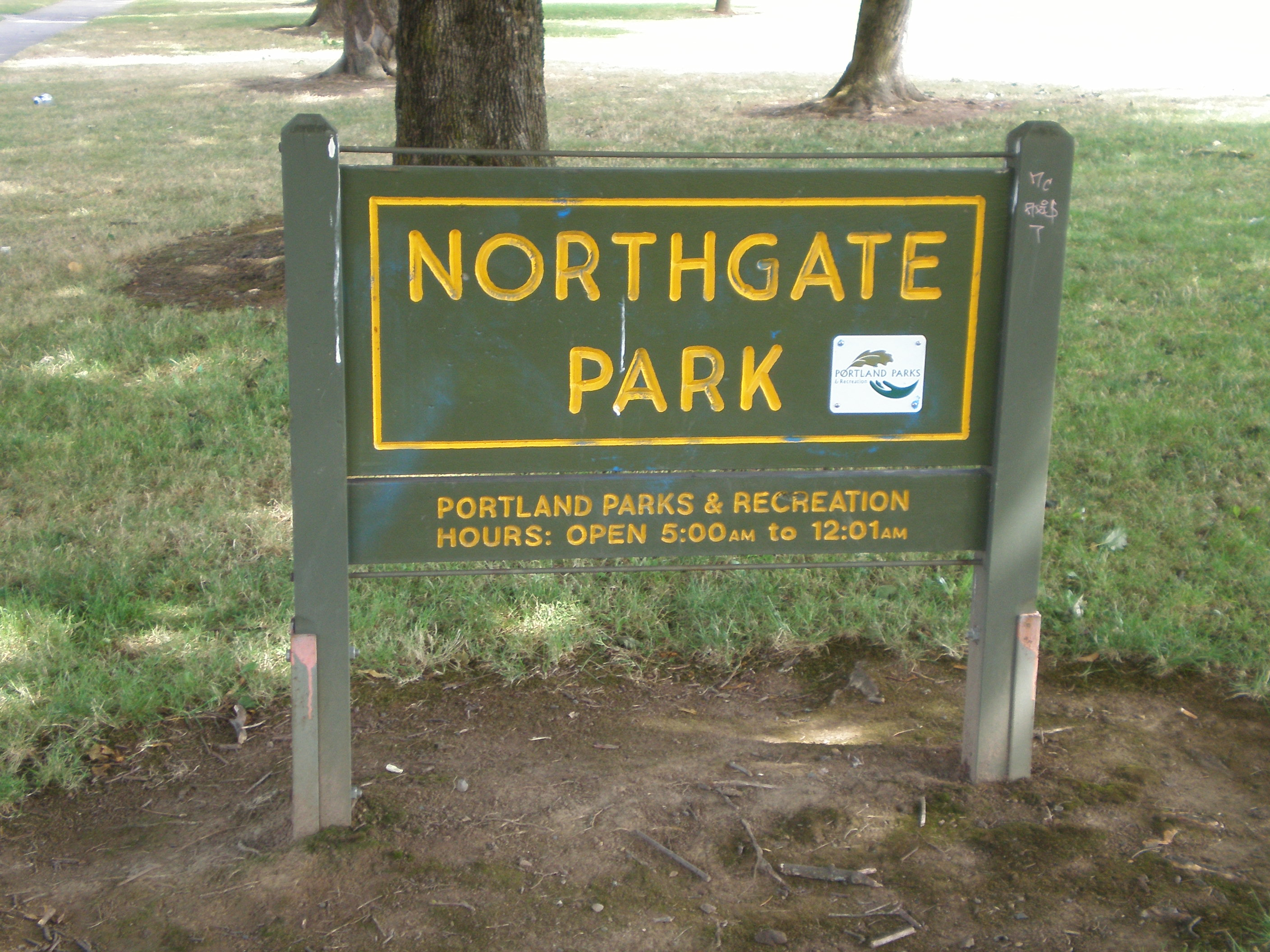 Sign for Northgate Park in Portland, Oregon